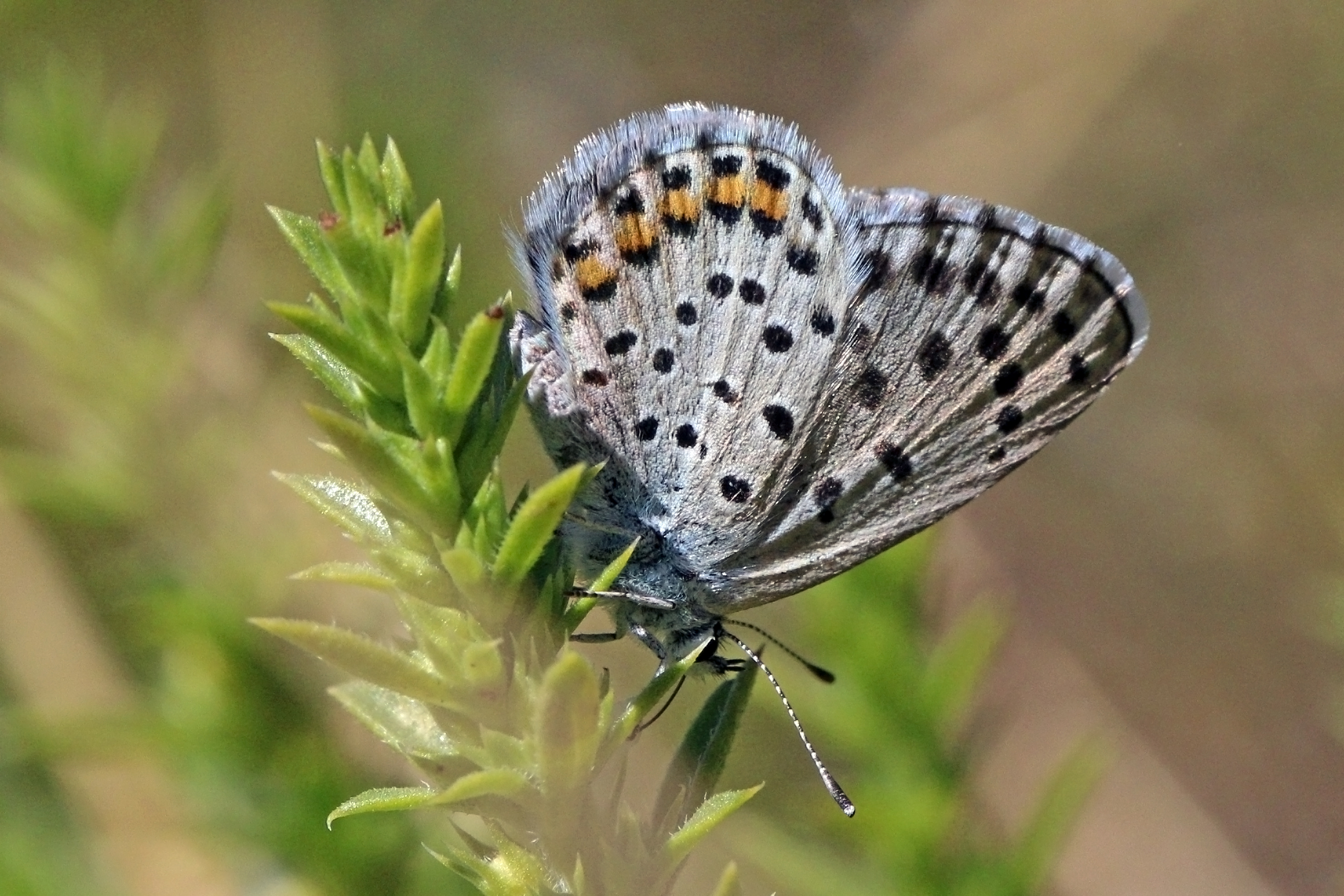 Eastern baton blue (Pseudophilotes vicrama), Galichica National Park, Macedonia